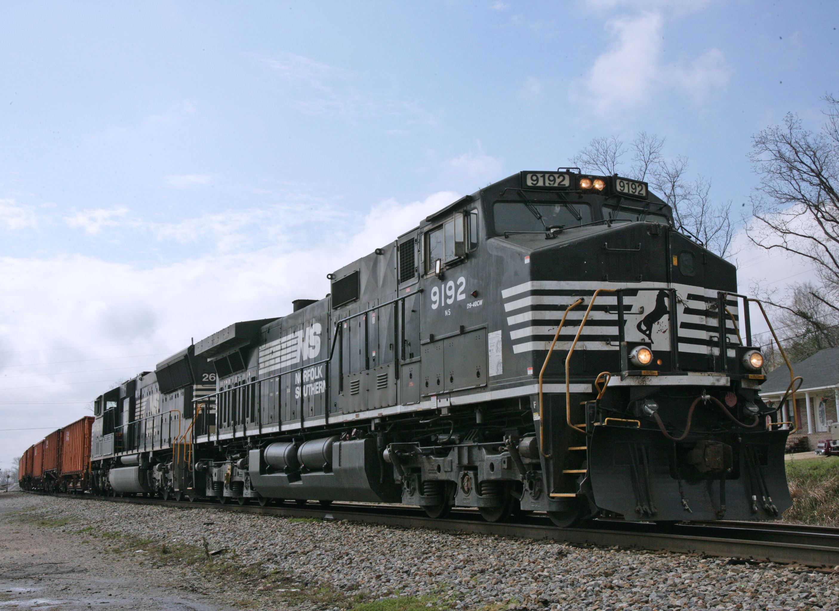 Norfolk southern locomotive